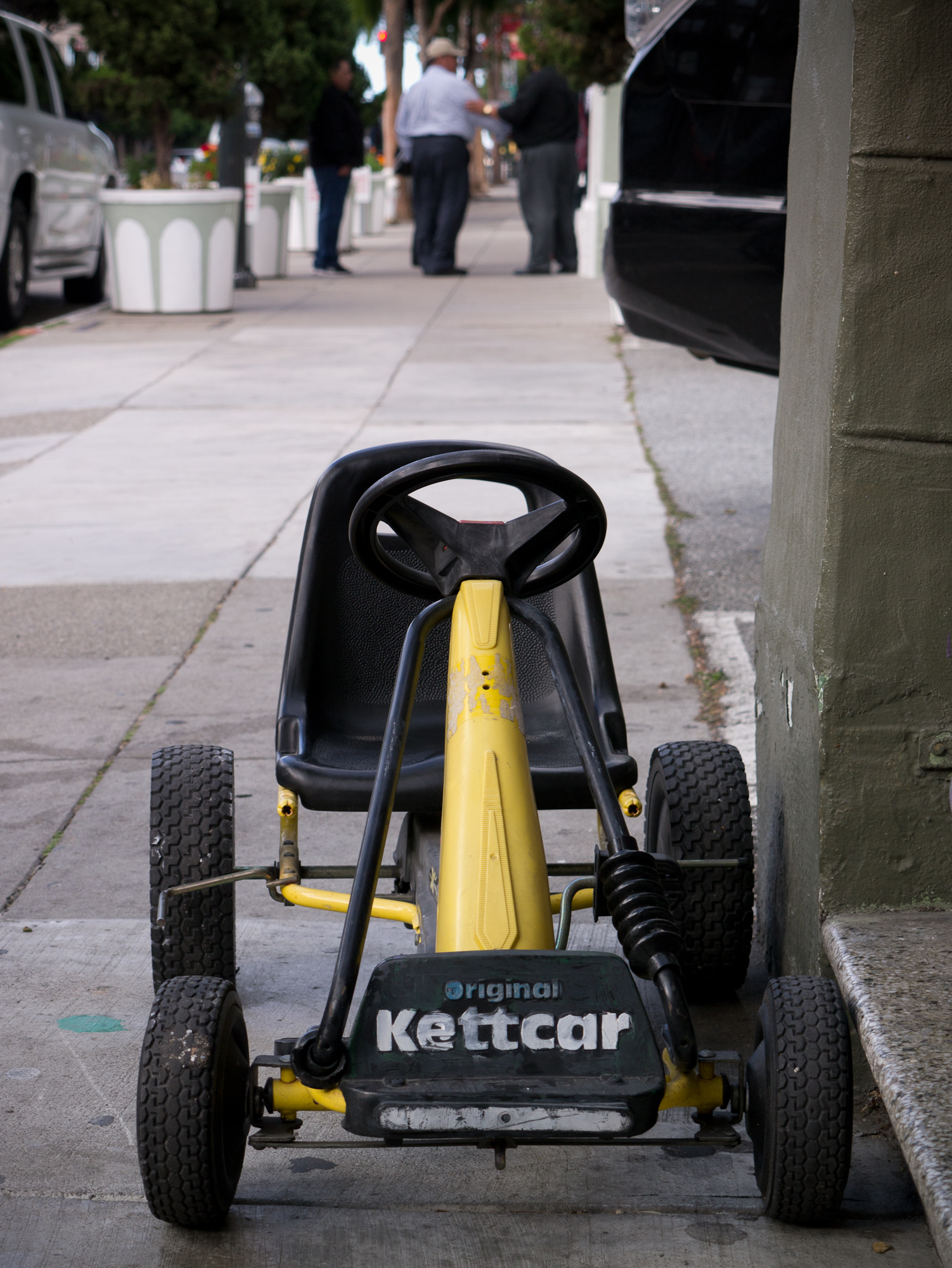 Kettcar - a German brand pedal car (2015)